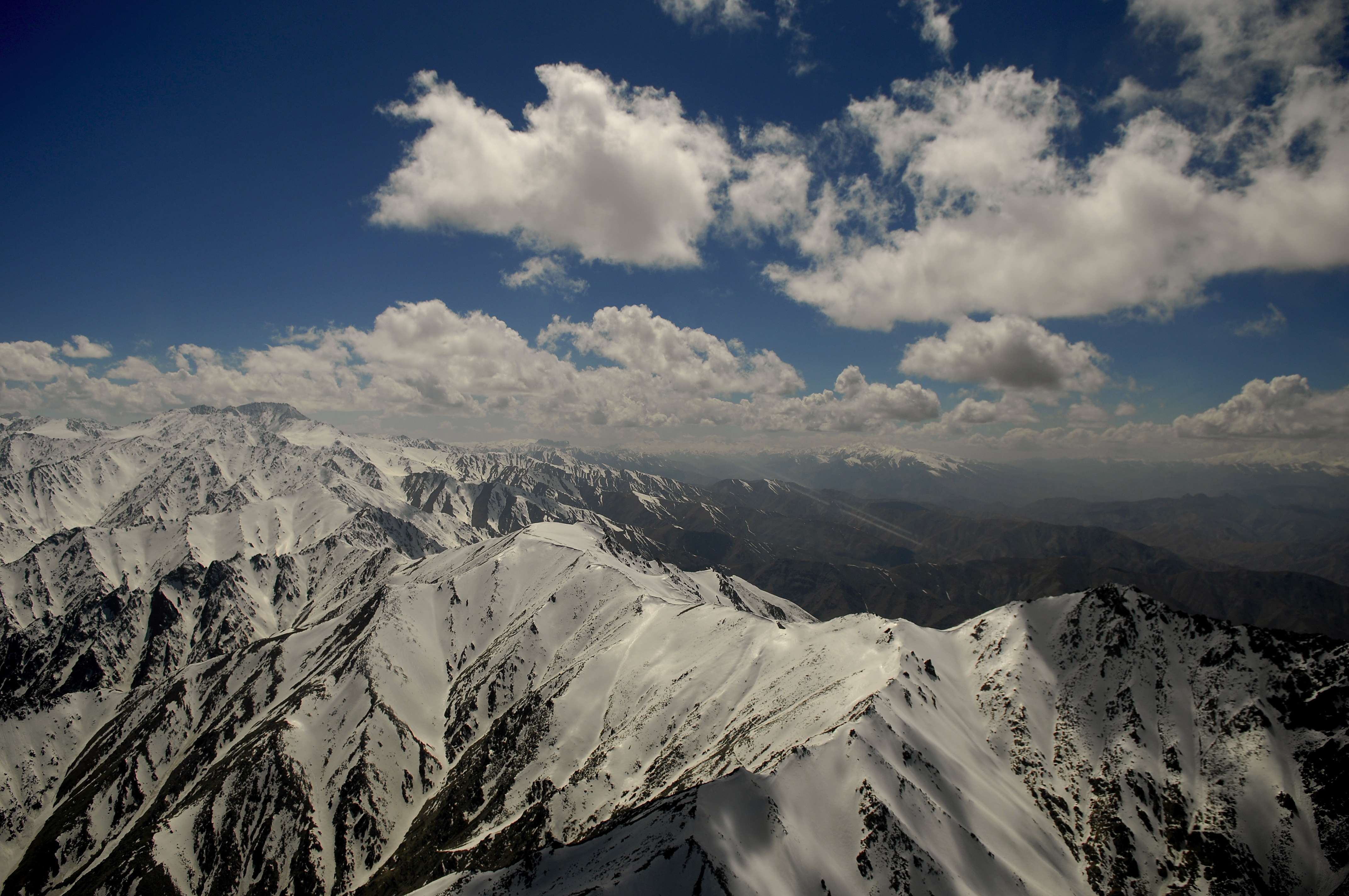 An aerial view of mountains in Afghanistan taken from a U.S. Air Force C-130 Hercules transport aircraft April 23, 2008, during a cargo mission launched from Bagram Air Base, Afghanistan, in support of Operation Enduring Freedom.پښتو: په افغانستان کې د غرونو کې له يوې متحده ايالاتو د هوايي ځواک د C-130 ډوله ترانسپورتي الوتکې د اپریل 23، 2008، د یوه باروړونکې ماموریت کې د تلپاتې ازادۍ د عملياتو د ملاتړ څخه د بګرام هوايي ډګر، افغانستان، پيل په جريان کې د يو هوايي محتویات.